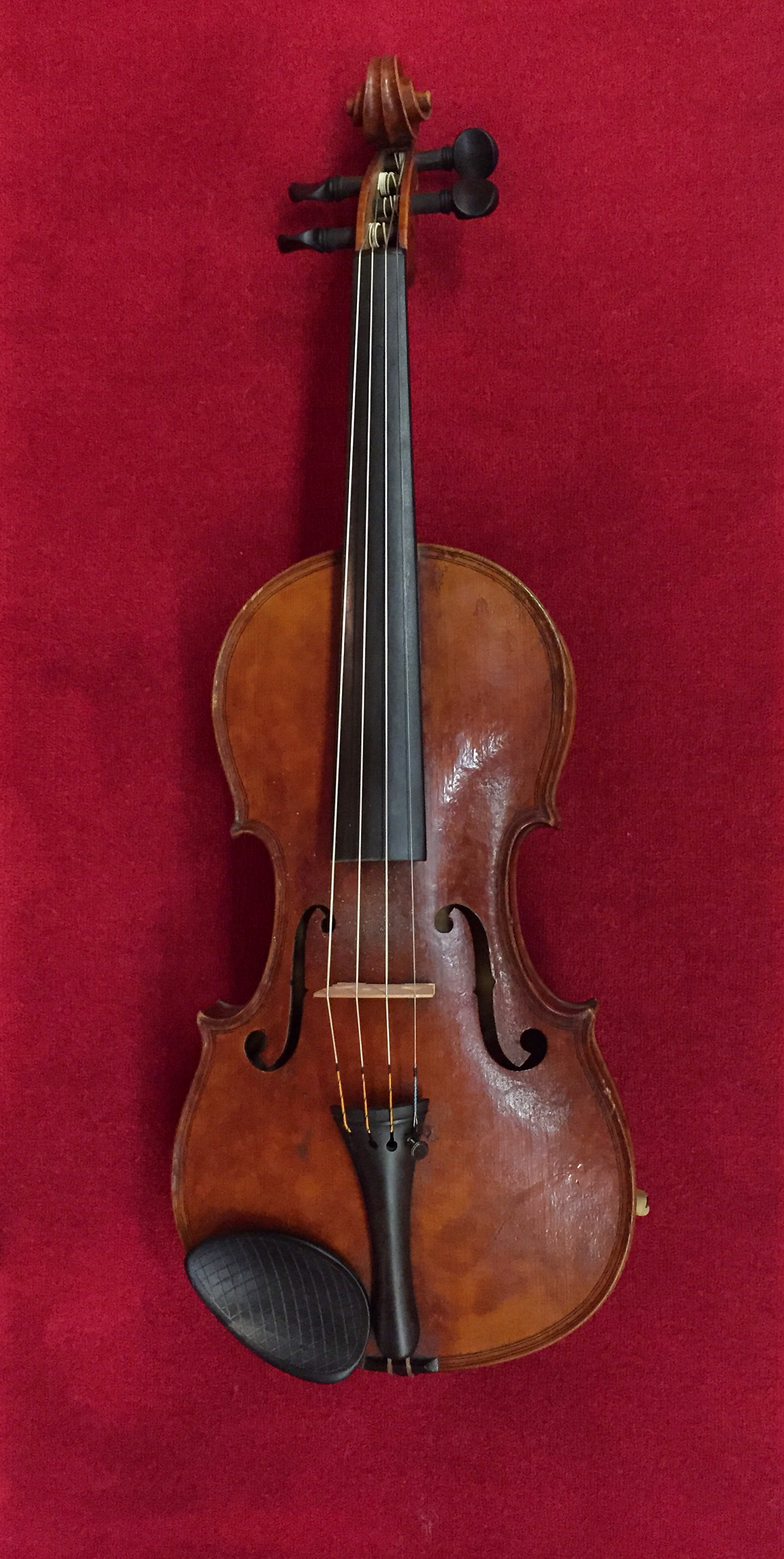 Violin by Étienne Maire Clarà